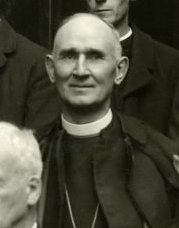 Adam de Pencier, then Anglican Bishop of New Westminster